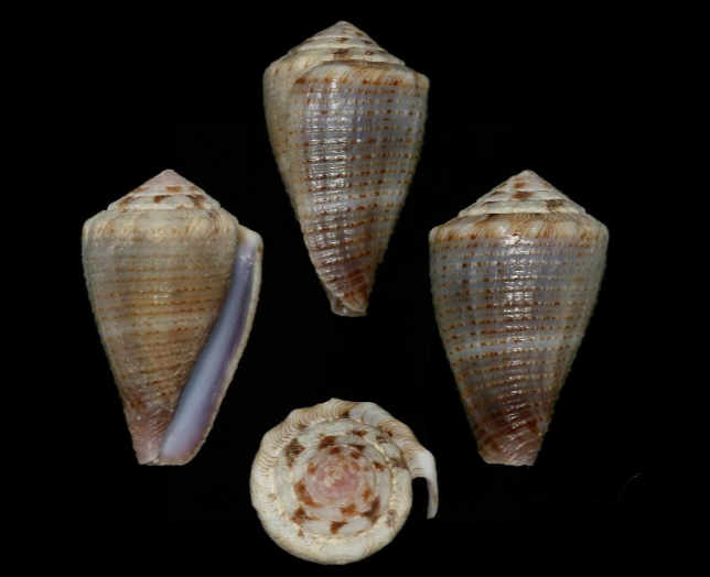 Conus kulkulcan Petuch, 1980; family Conidae; holotype at the Smithsonian Institution